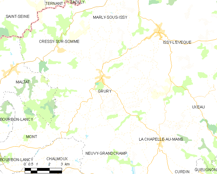 Map of French municipality